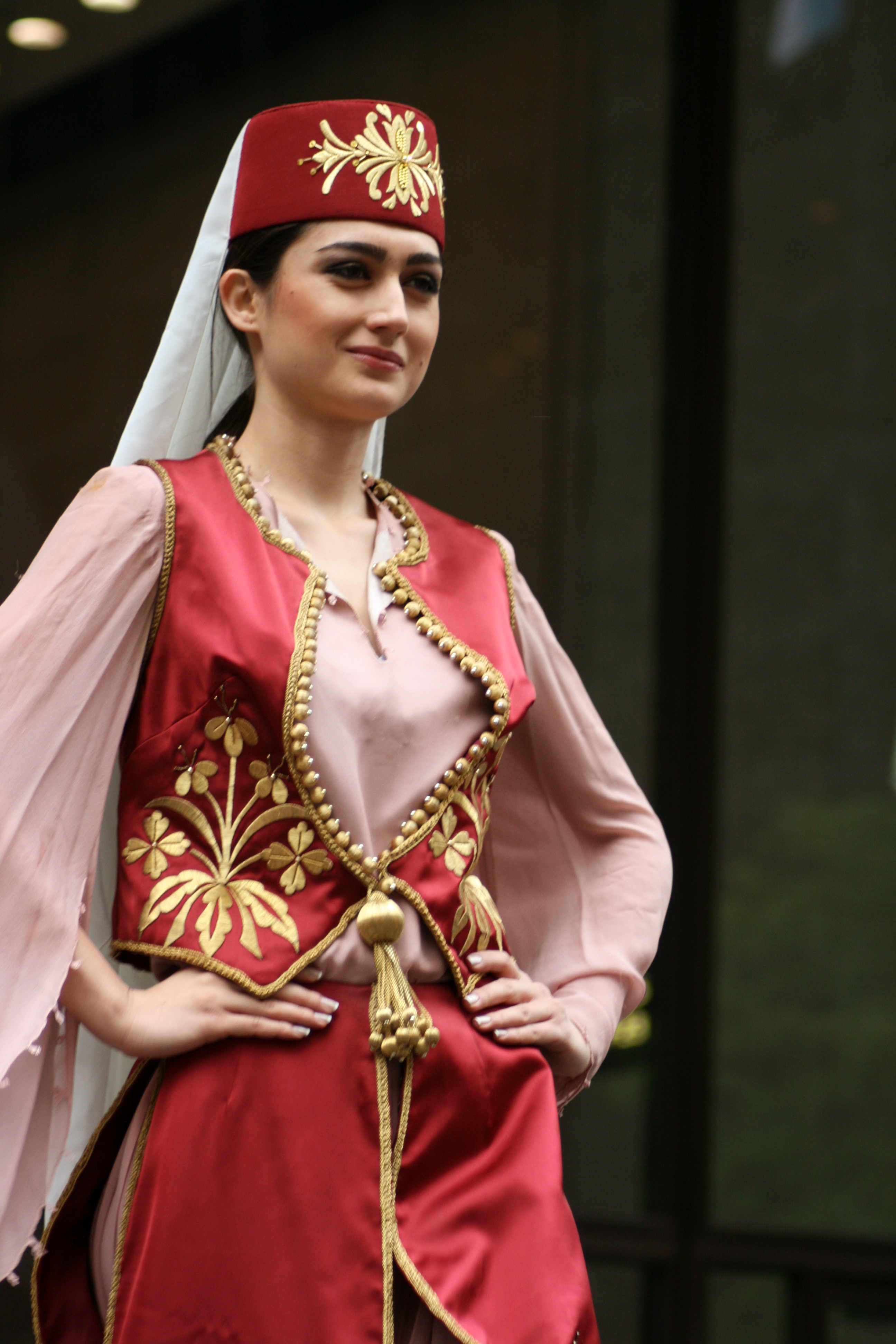 Turkish woman in traditional Ottoman costume.